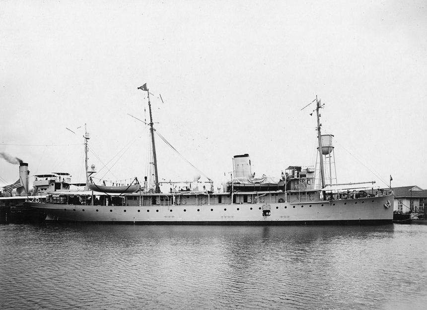 The U.S. Navy submarine tender USS Fulton (AS-1) moored at Naval Station Coco Solo, Panama Canal Zone, in April 1924.